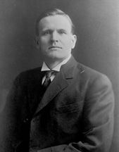 U.S. Senator Lenroot